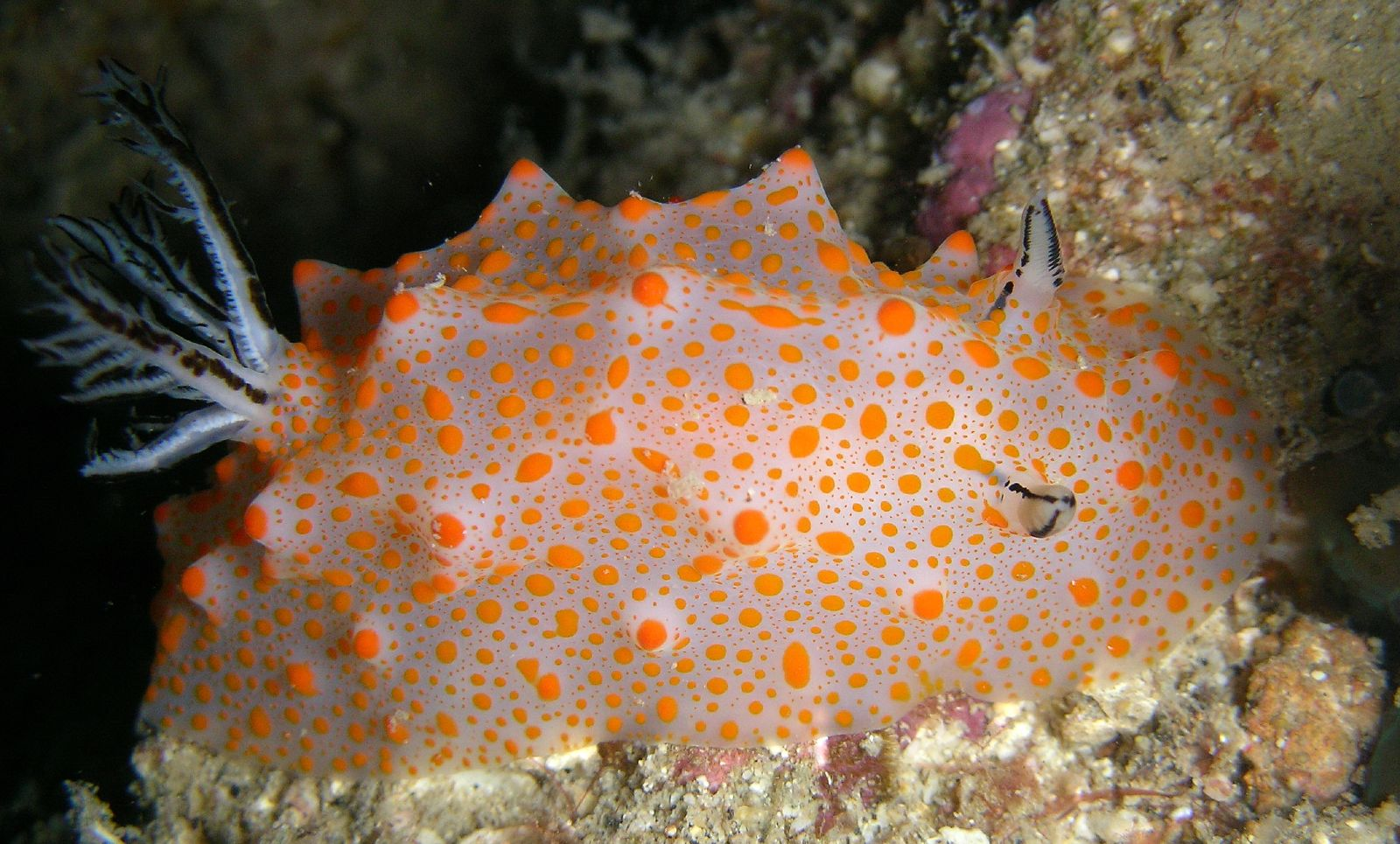 Halgerda stricklandi, a nudibranch at the Andaman Islands